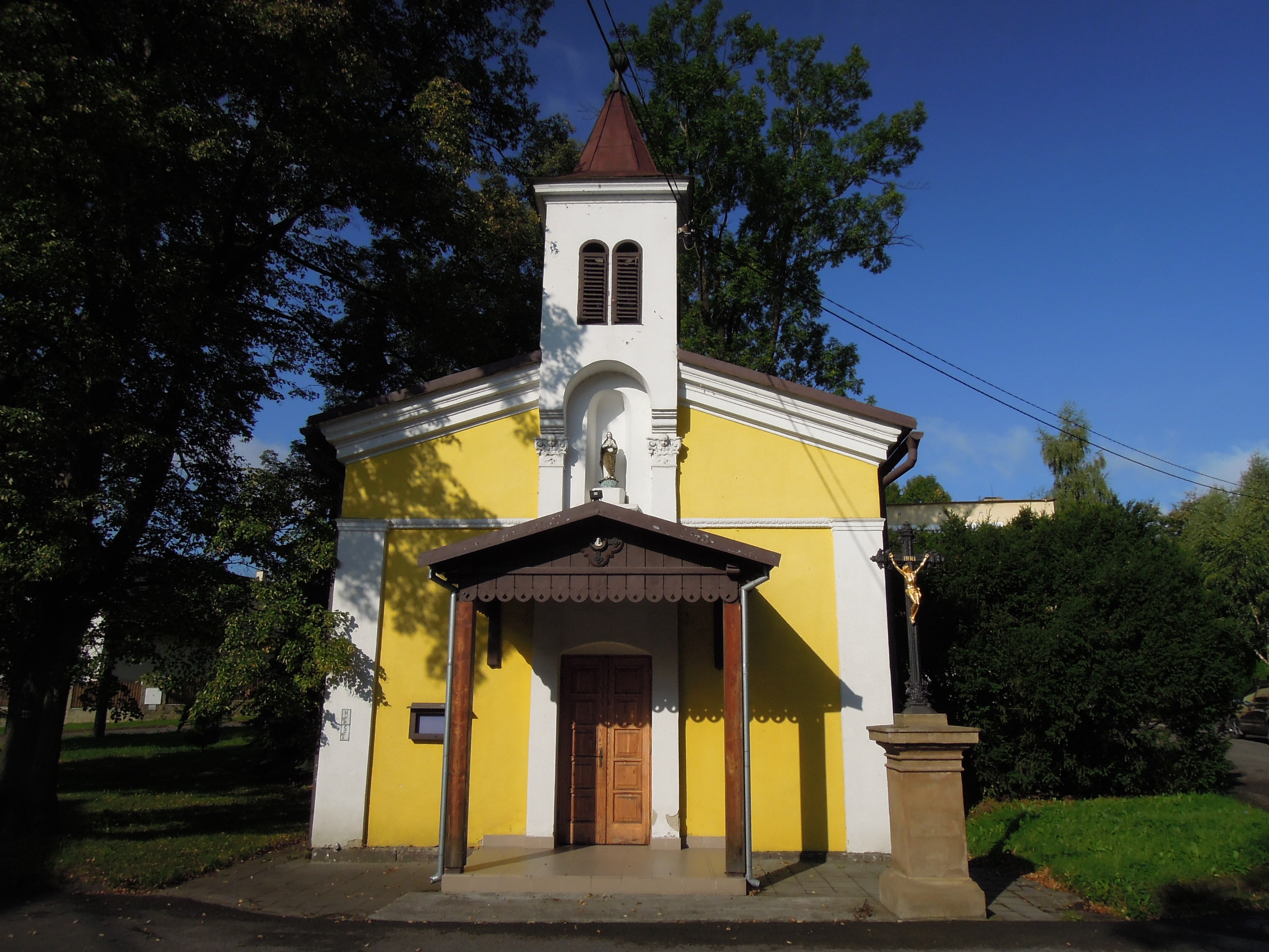 Chapel in Krhová, Vsetín District, Zlín Region, Czech Republic